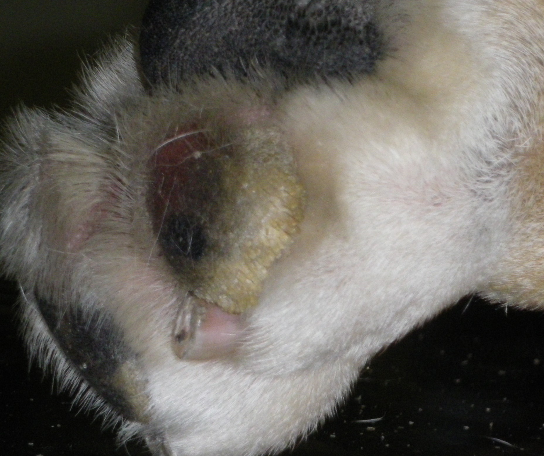 hyperkeratosis of ball pads in an English buldog